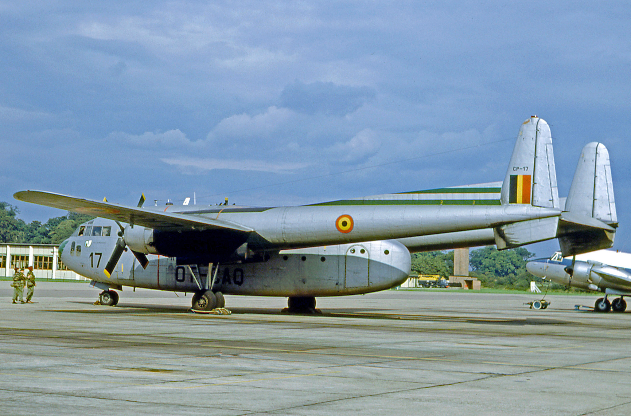 Fairchild C-119G Flying Boxcar CP-17 of the Belgian Air Force at Coltishall Norfolk in 1965